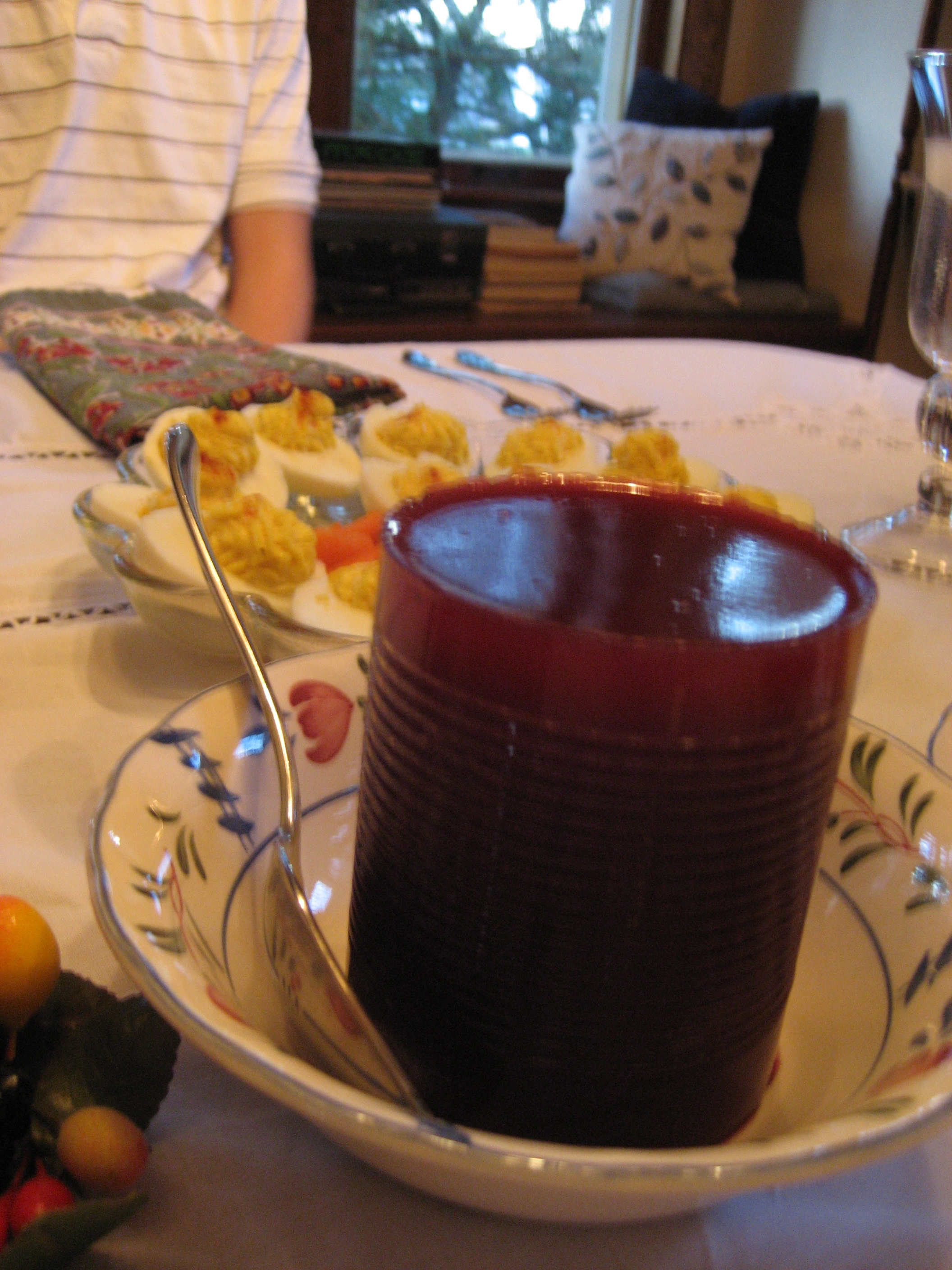 Deliciously shaped.